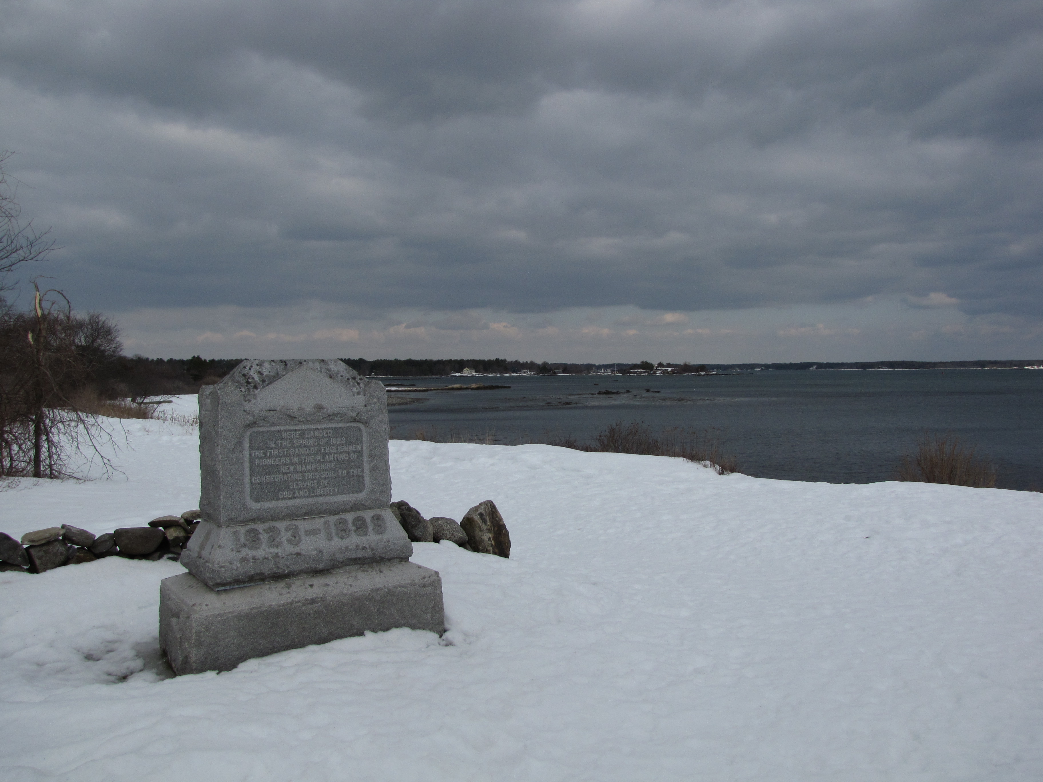 1899 monument marking location of 1623 landing of first settlers at "Pannaway"; located in Odiorne Point State Park.